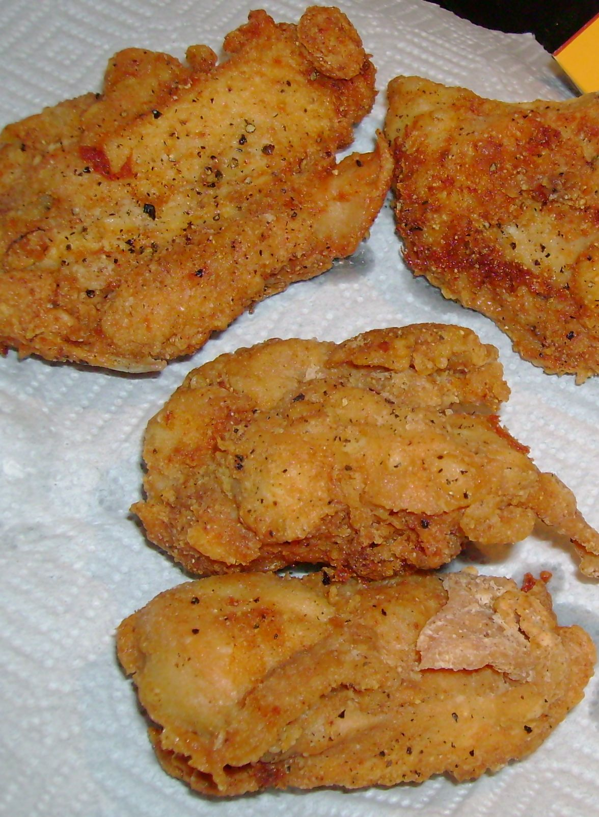 Fried Chicken - breasts. I used Drake's Cripsy Fry and deep fried them)or wings) to crispy perfection. No seasoning needed, in the mix. I did add crushed black pepper after done. I sometimes use or mix Crispy Fry as an alternative mix.